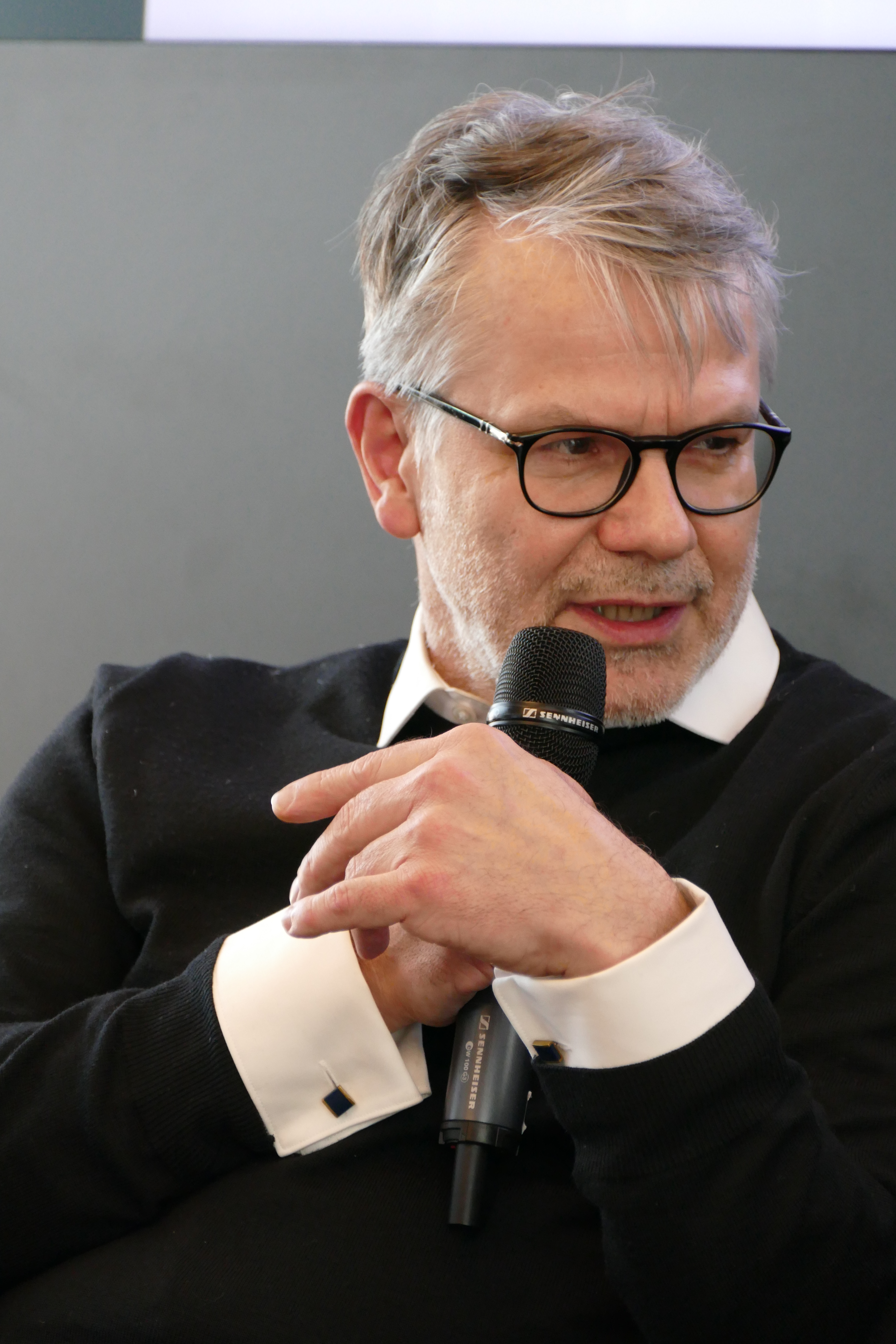 Durs Grünbein bei Fokus Lyrik 2019 in Frankfurt